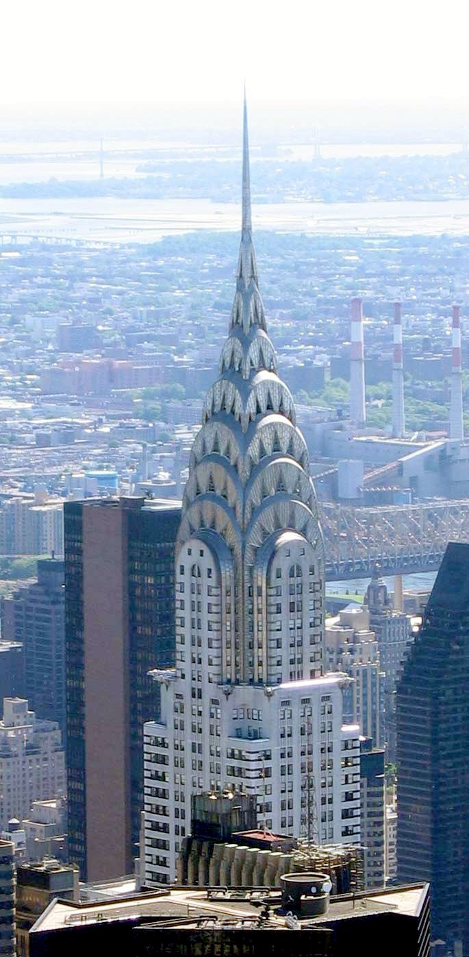 Chrysler Building, NYC, 30. Mai, 2004 (Selbst fotographiert)